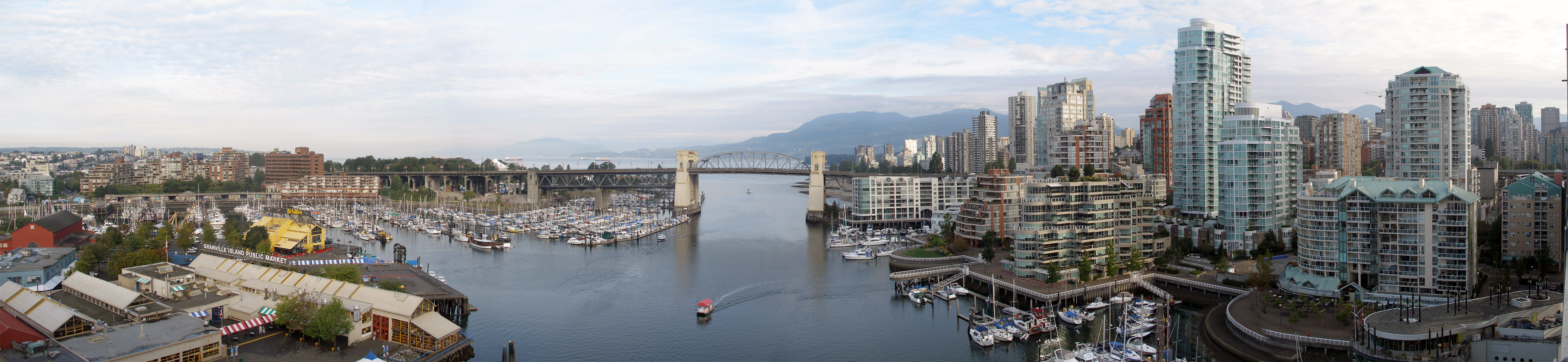 Burrard Bridge from Granville Bridge, Vancouver